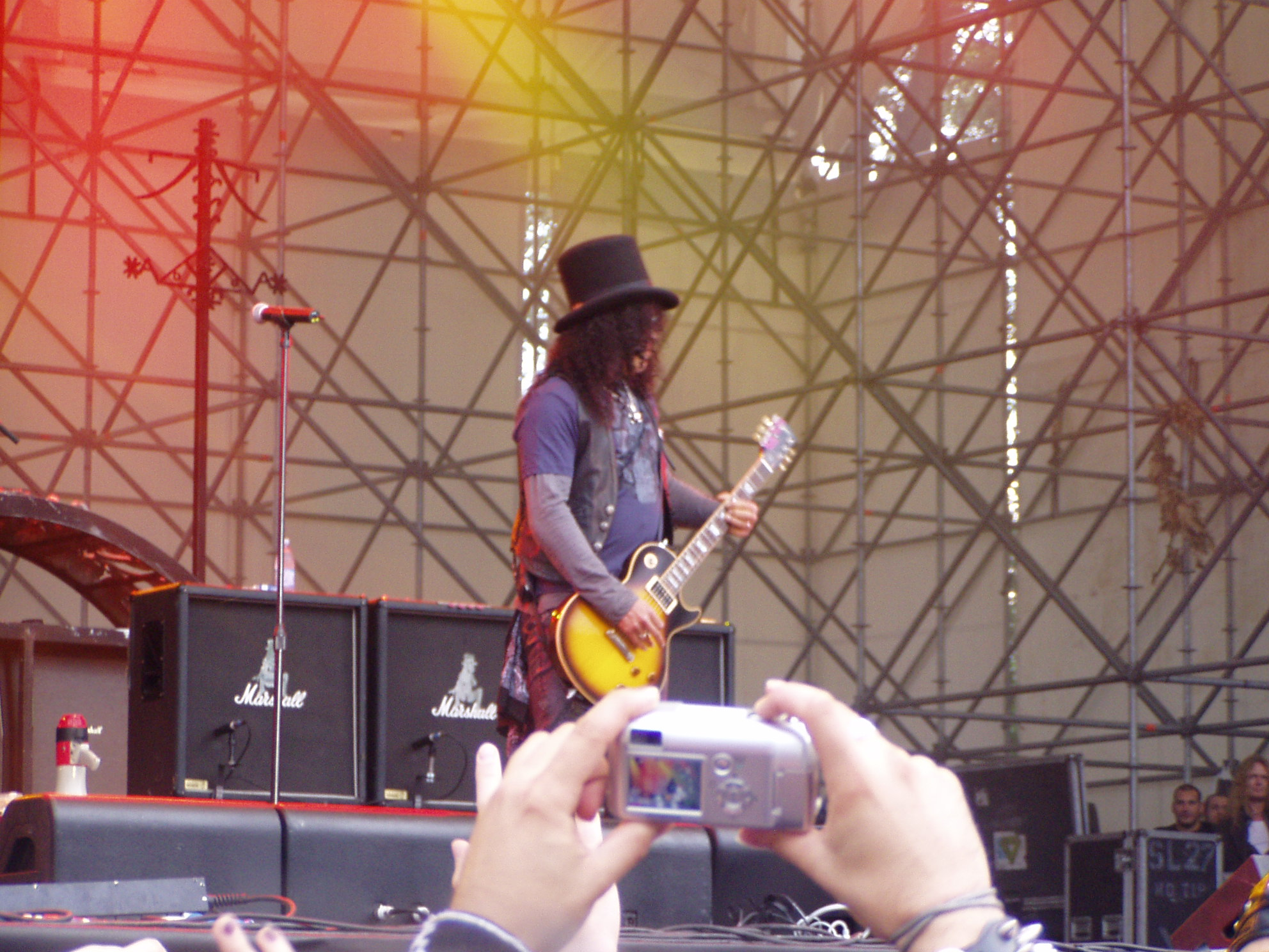 Slash al Gods of Metal 2007